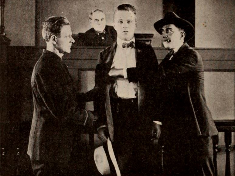 Still from the American film serial The Fatal Fortune (1919) with Jack Levering being searched at the police station, the other actor are unidentified, on page 82 of the September 13, 1919 Exhibitors Herald.